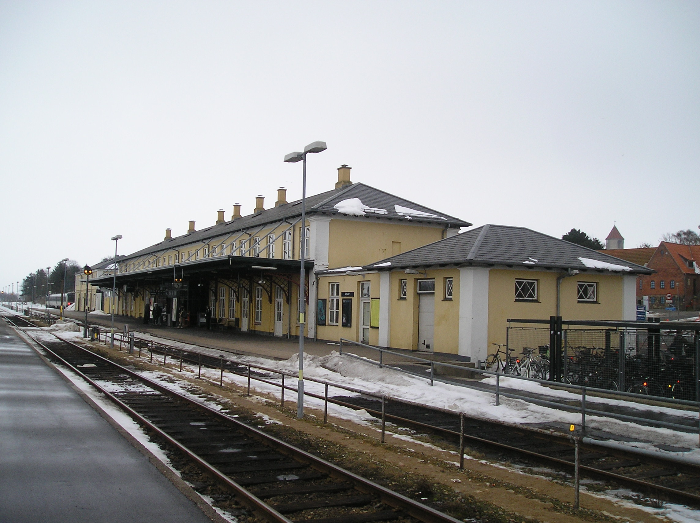 Struer Station in north western Jutland in Denmark.